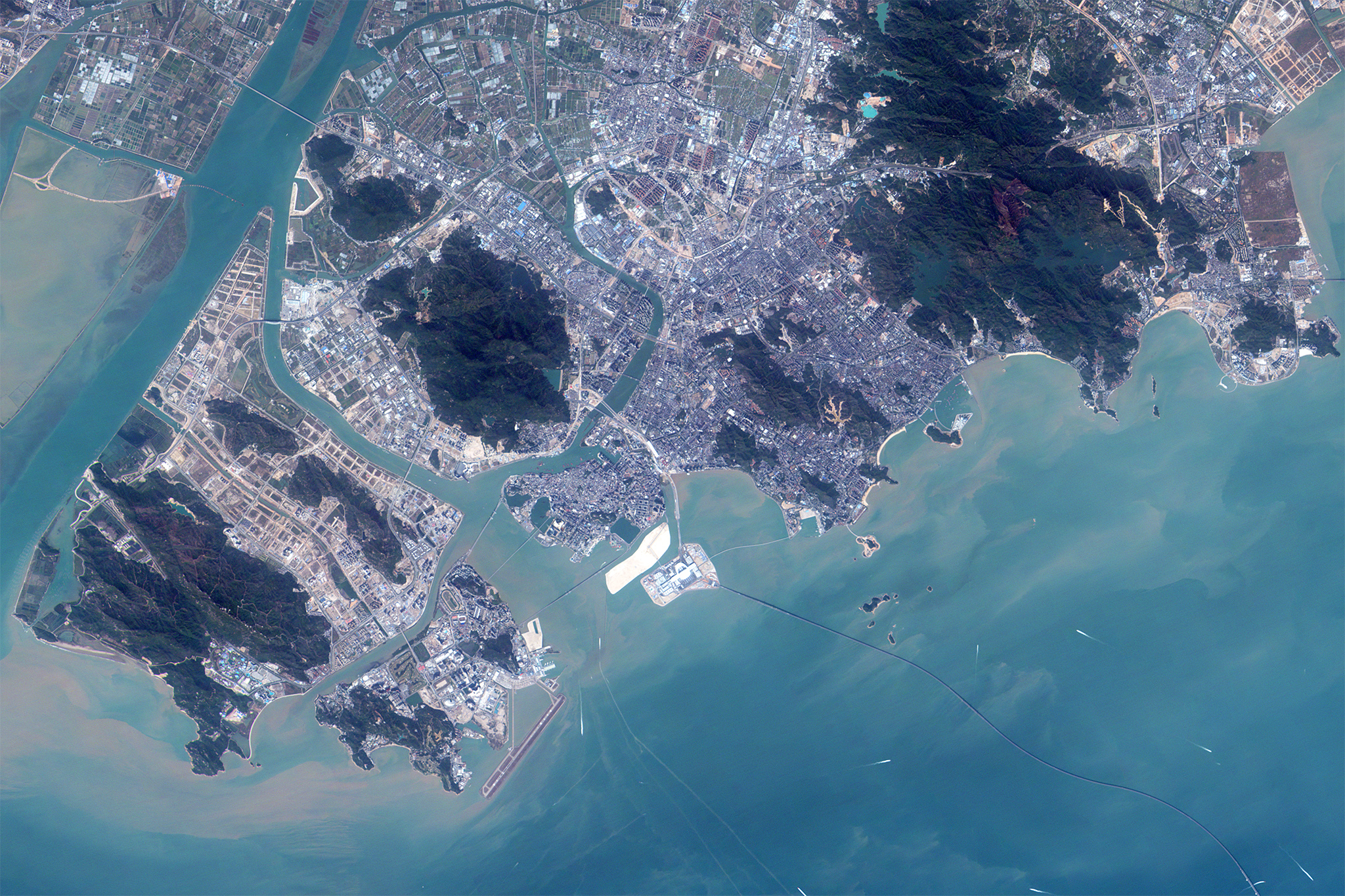 Macau, as viewed by Hodoyoshi-1 satellite.